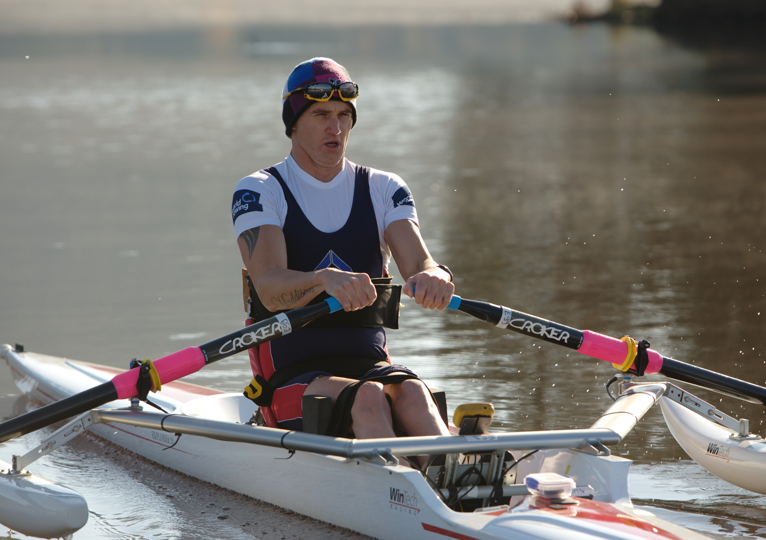 Erik Horrie, of the Australian adaptive rowing team, trains on Lake Burley Griffin.